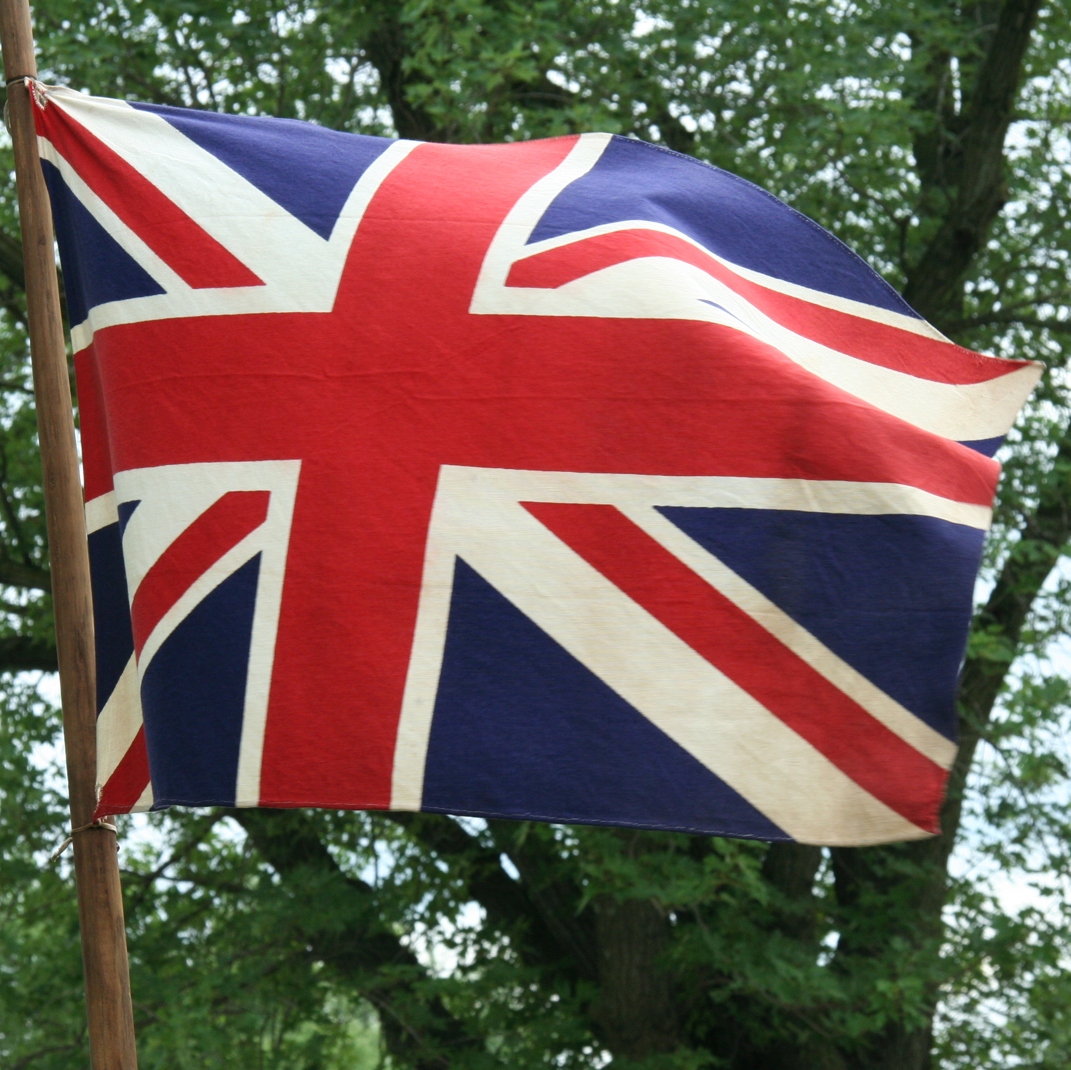 The Union Jack at the Villa Louis on the Mississippi River at a re-enactment of the Battle of Prairie du Chien in Wisconsin